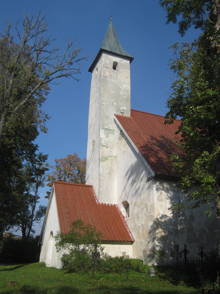 Nuckö Noarootsi Church